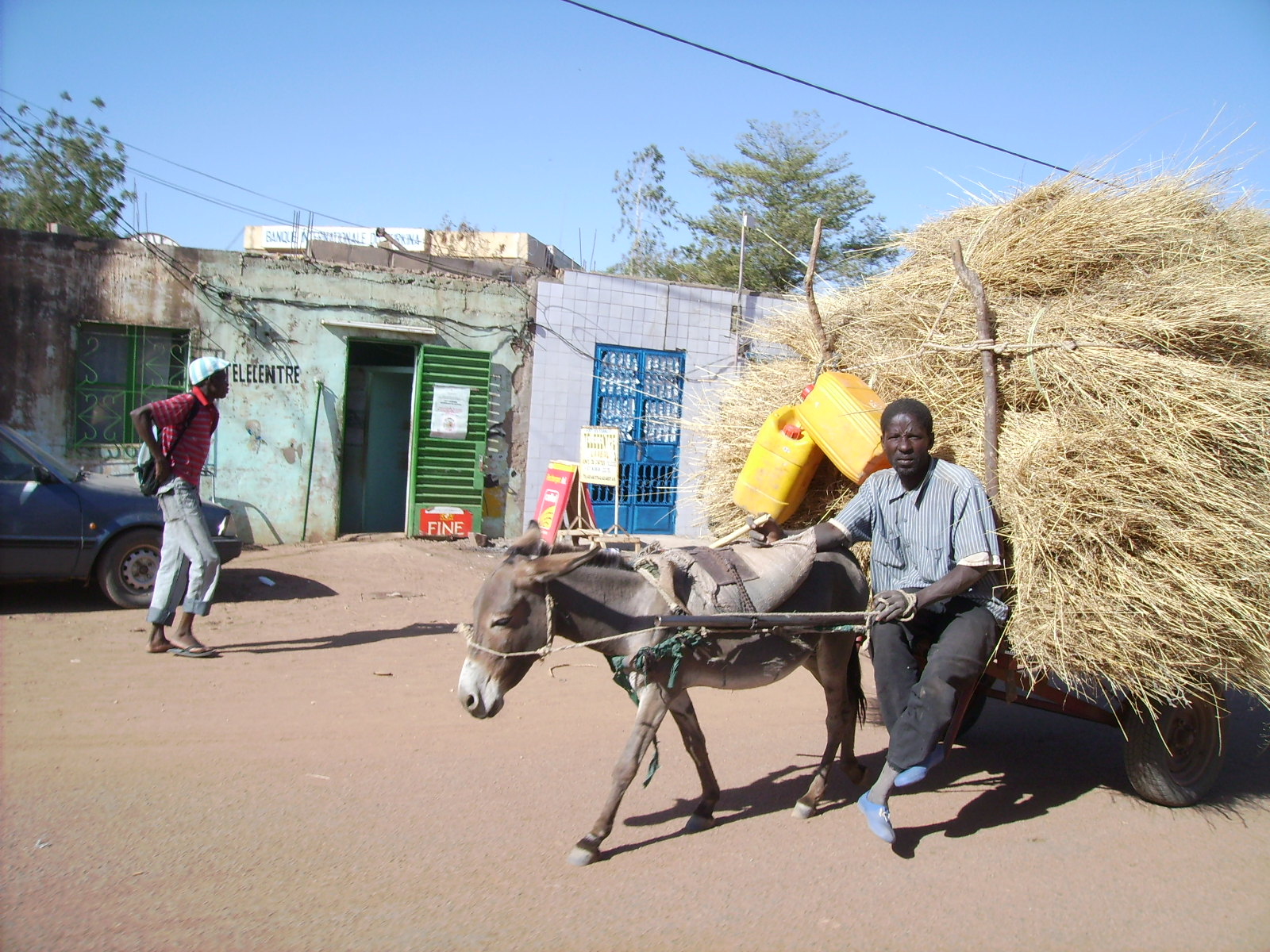 street life in Dori, Burkina Faso